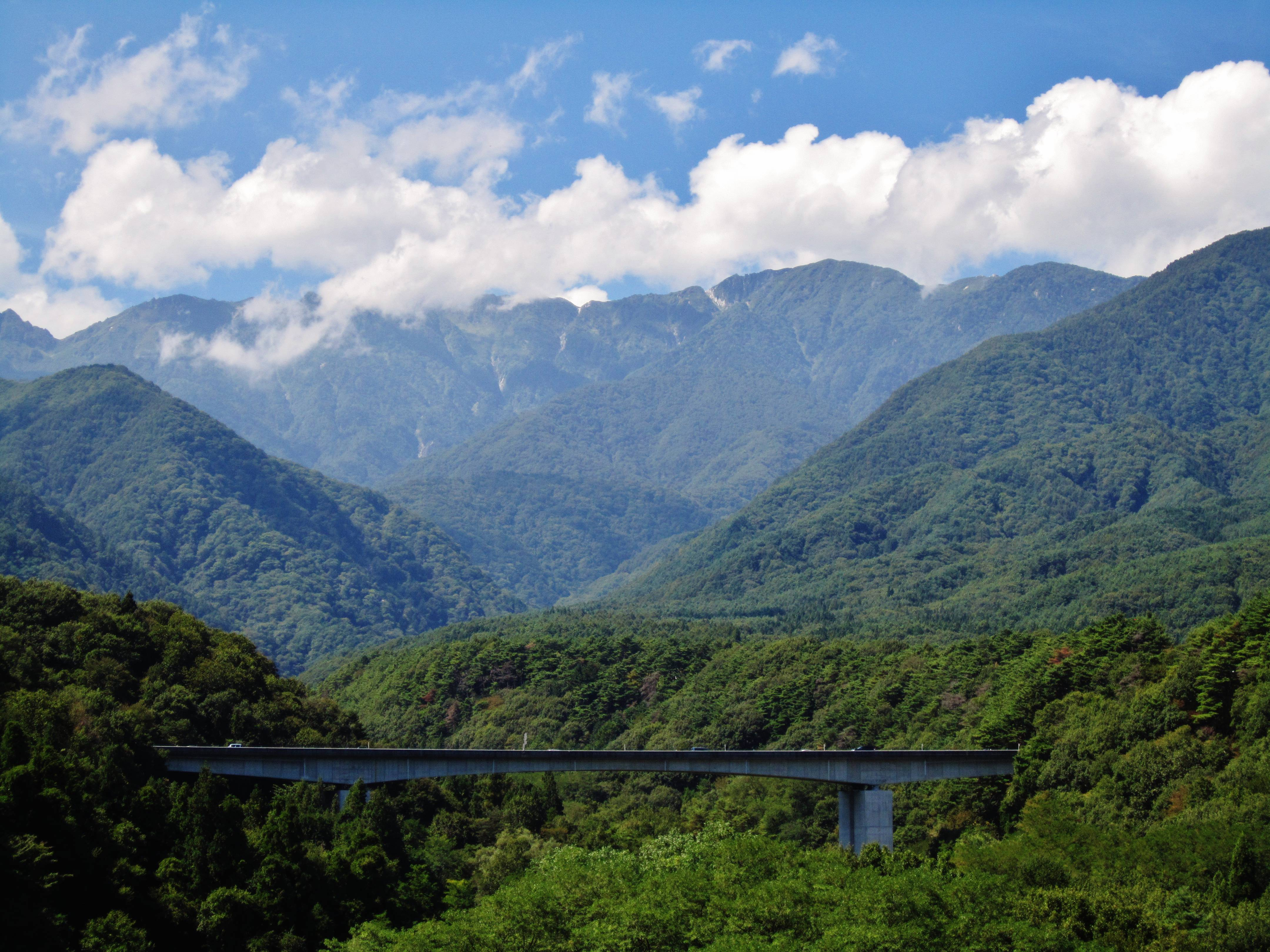 Chuo Expressway and Nakatagiri River.